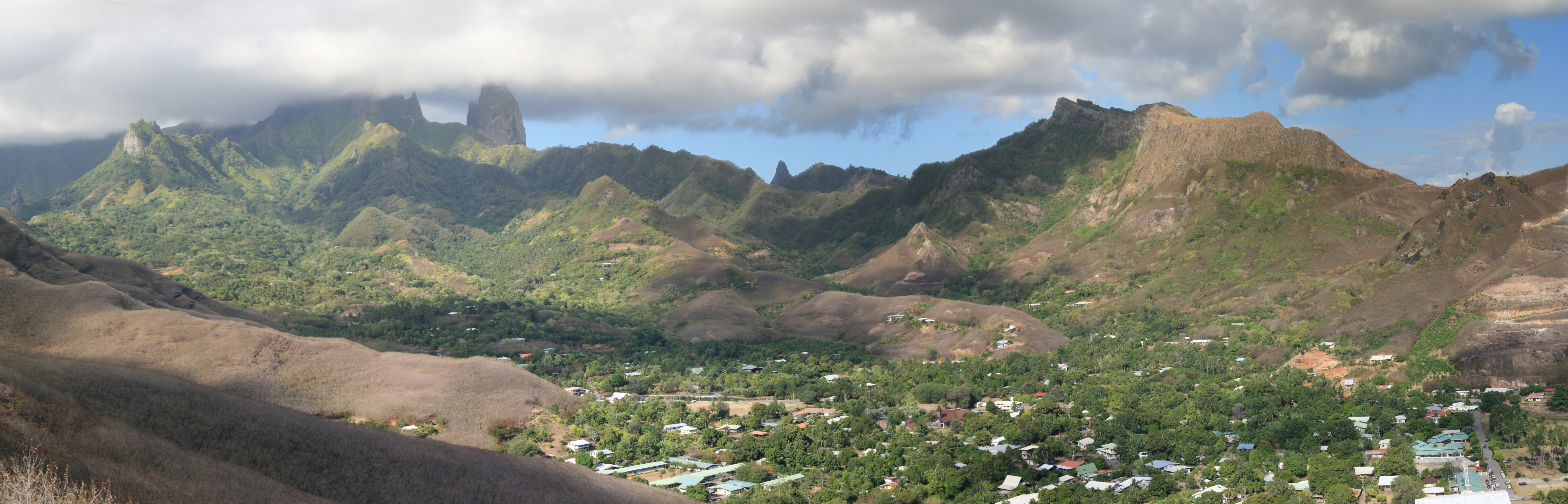 Hakahau village, Ua Pou, Marquesas Islands, French Polynesia.